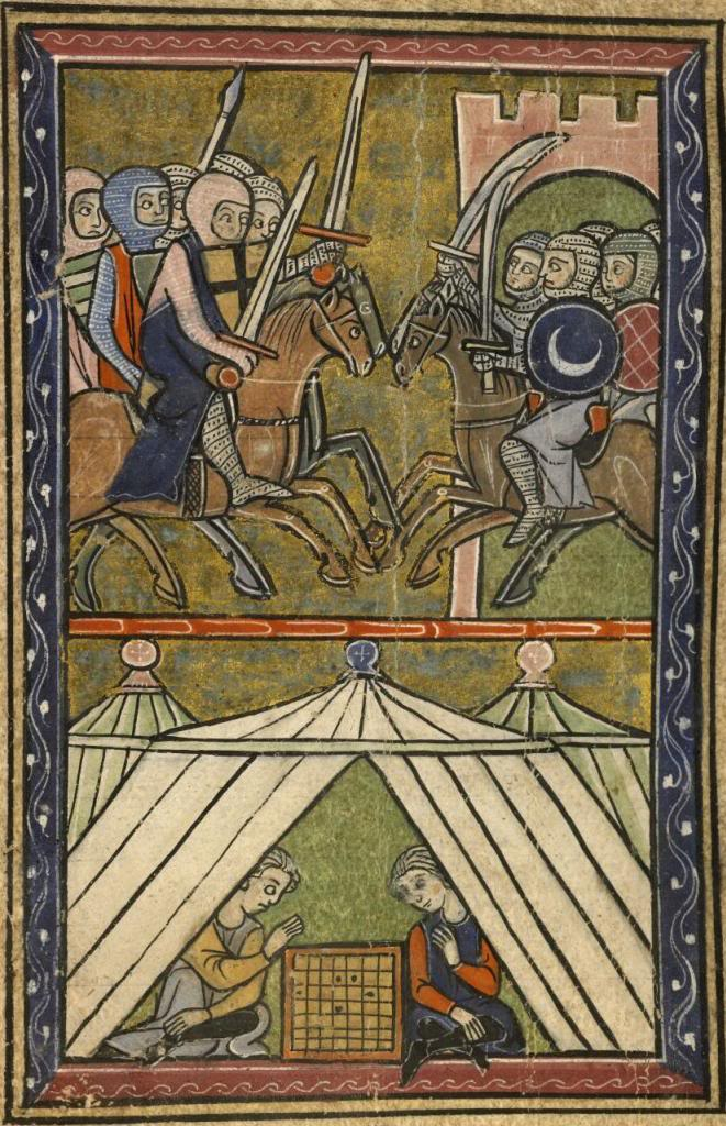 Miniature from Boulogne-sur-mer - Bibliothèque Municipale - Ms 142 Guillaume de Tyr, Histoire d'Outremer, Saint-Jean d’Acre (manuscript donated in 1698 by Melchior Philibert to the Jesuit College in Lyon). Top: John II Komnenos in the siege of Shaizar (1138). Bottom: Raymond of Poitiers Count of Antioch and Josselin II Count of Edessa playing chess.